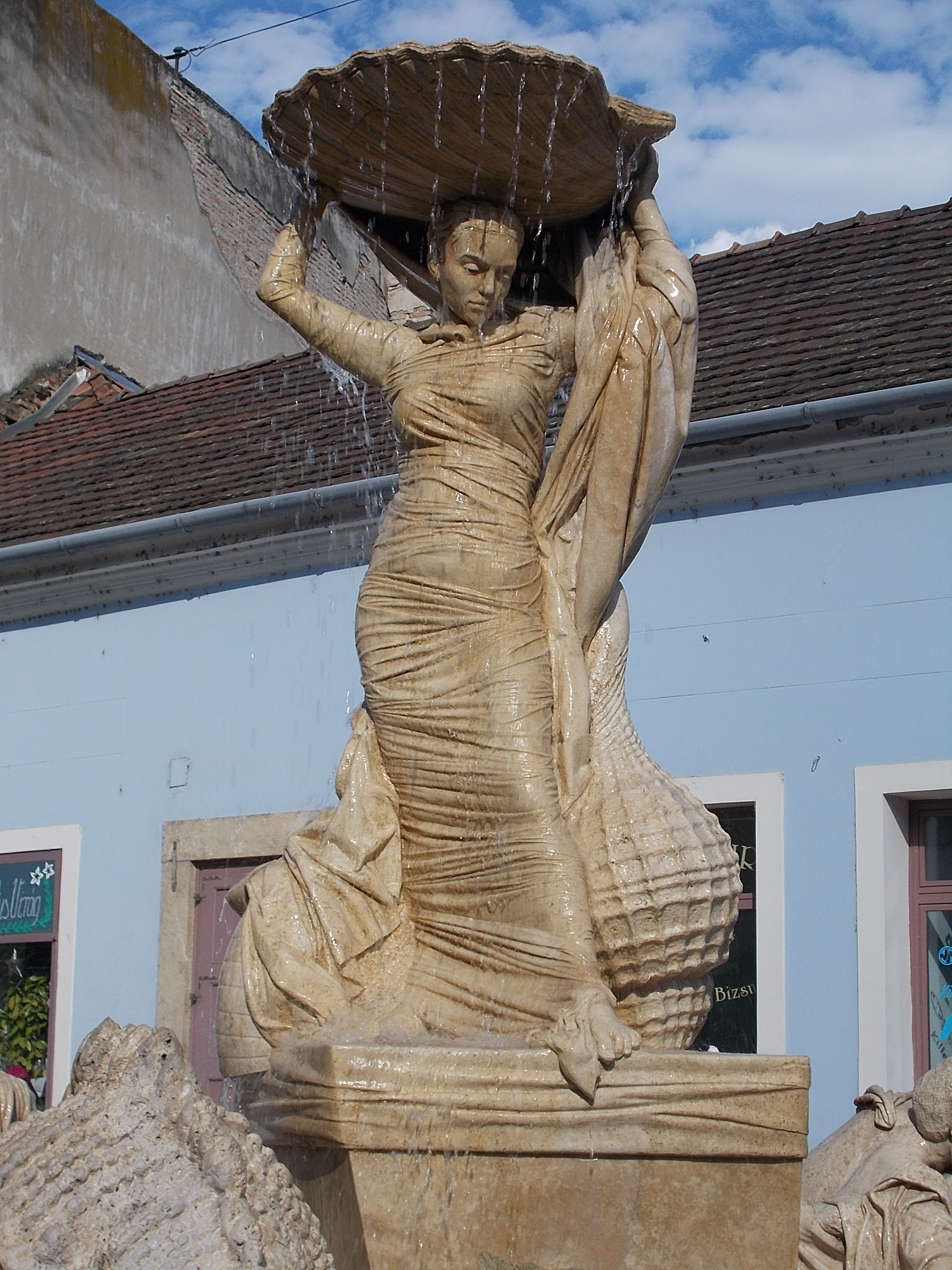 Ister-Fountain, (five life-size female sculpture) Listed area. - Széchenyi Square, Esztergom, Komárom-Esztergom County.